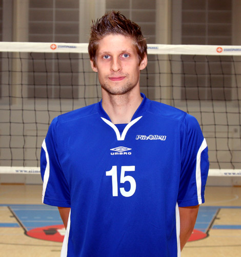 Tuukka Anttila volleyball player.